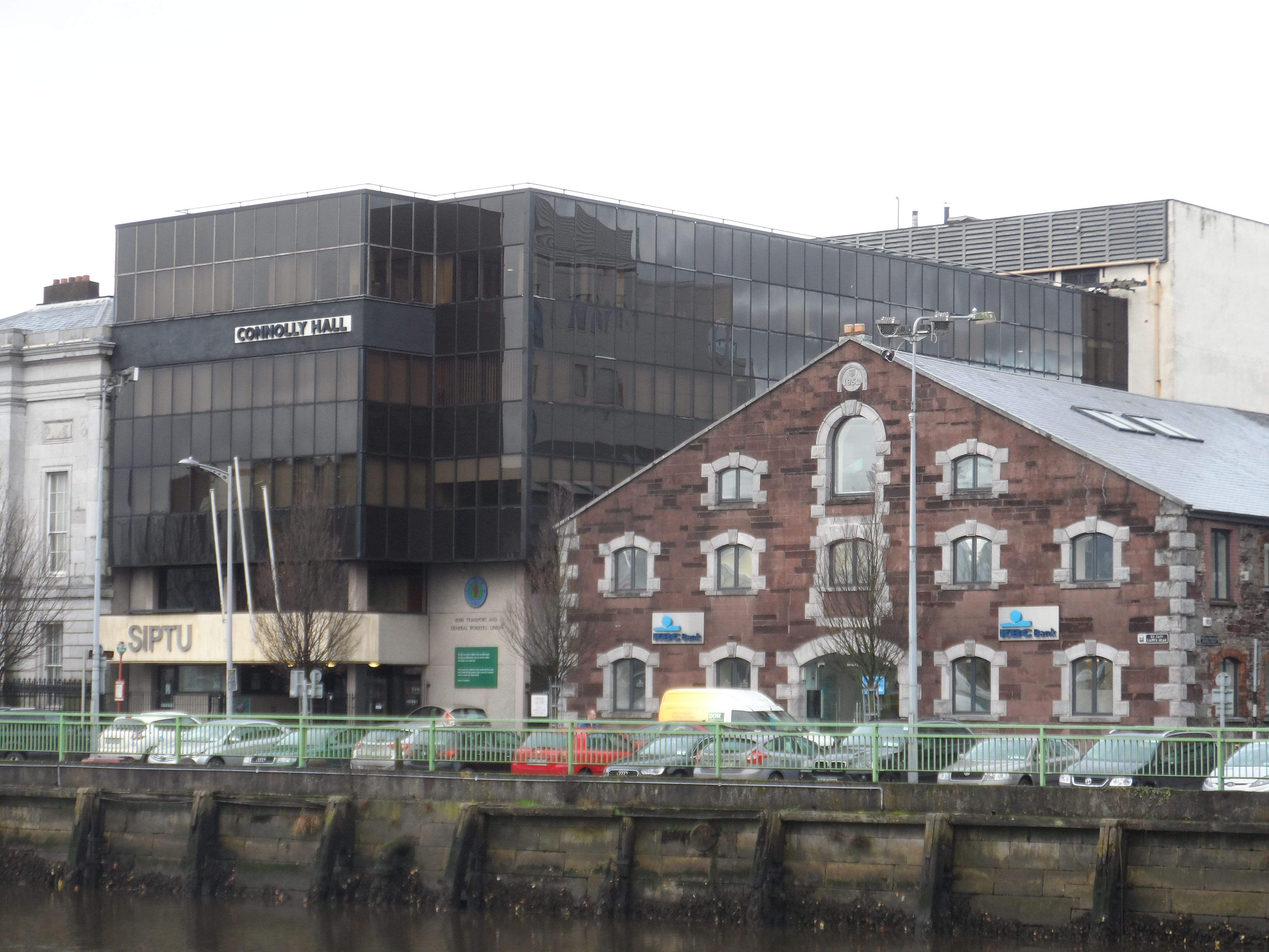 Port of Cork, buildings